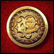 Central Pacific Railroad "High Dome" Gilt "Staff" Uniform Button, c1867